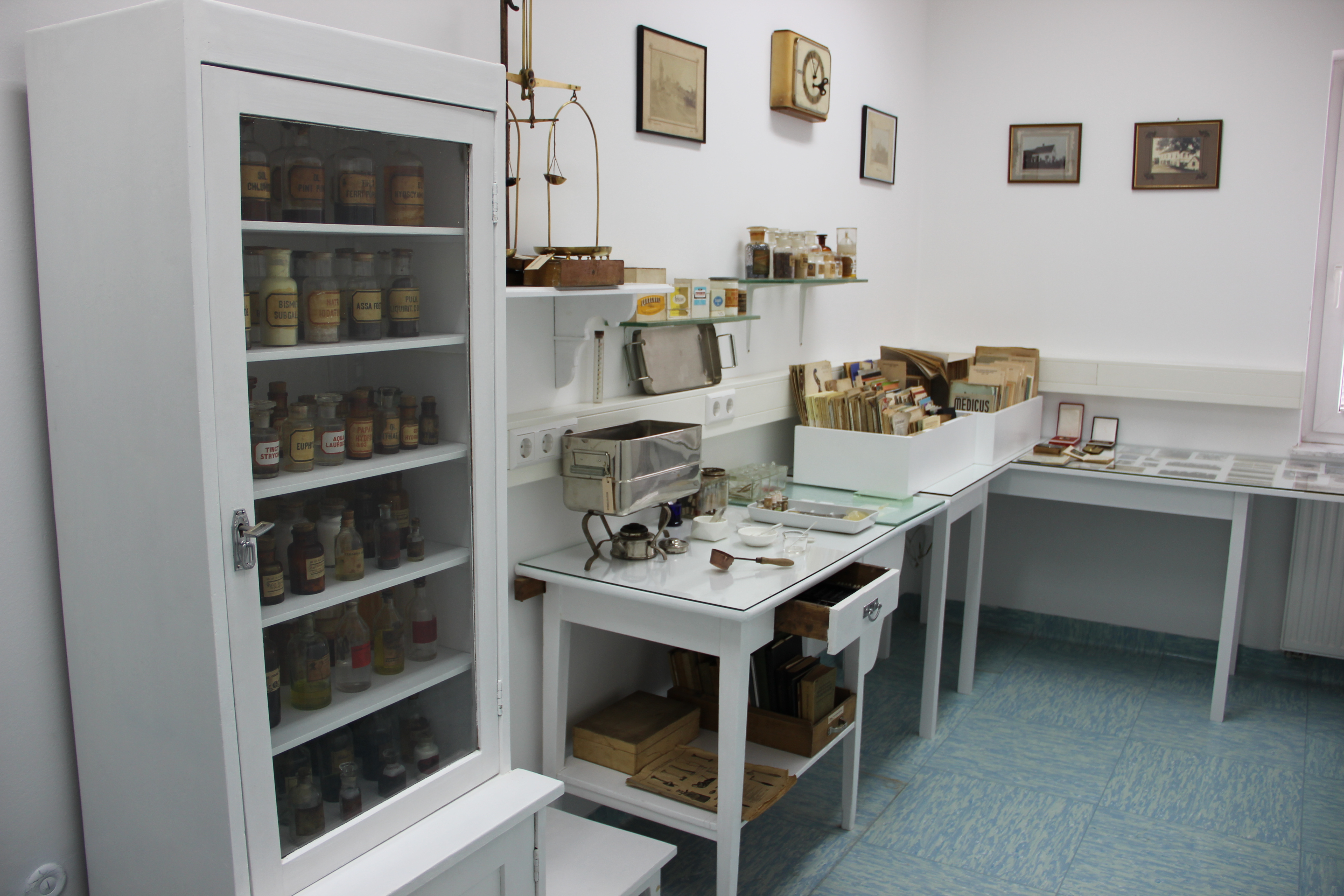 Doctor Roman Lesnika memorial room